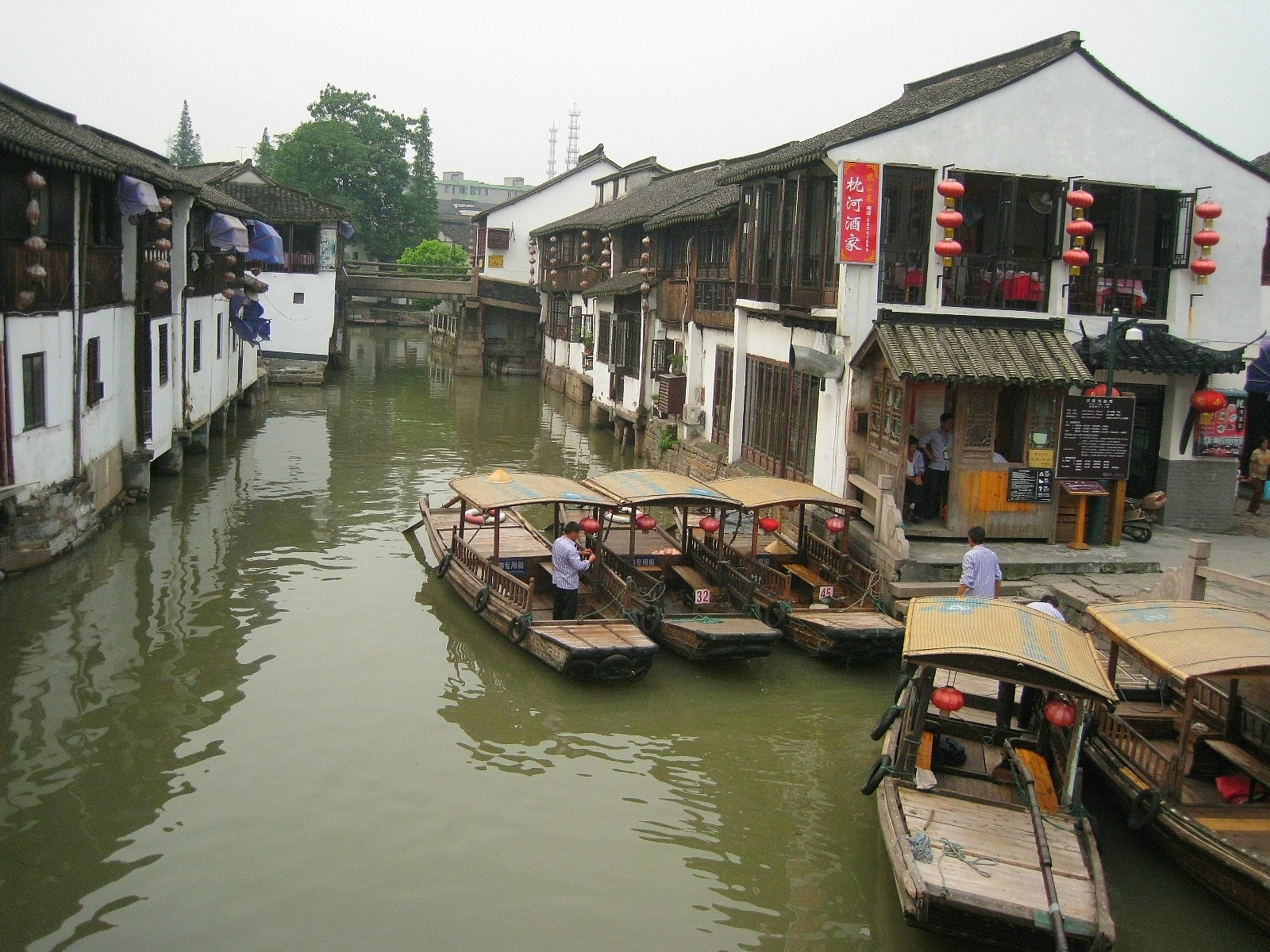 Boat rental company in Zhujiajiao 朱家角 Zhūjiājiǎo Zhèn an ancient town located in the Qingpu District of Shanghai.